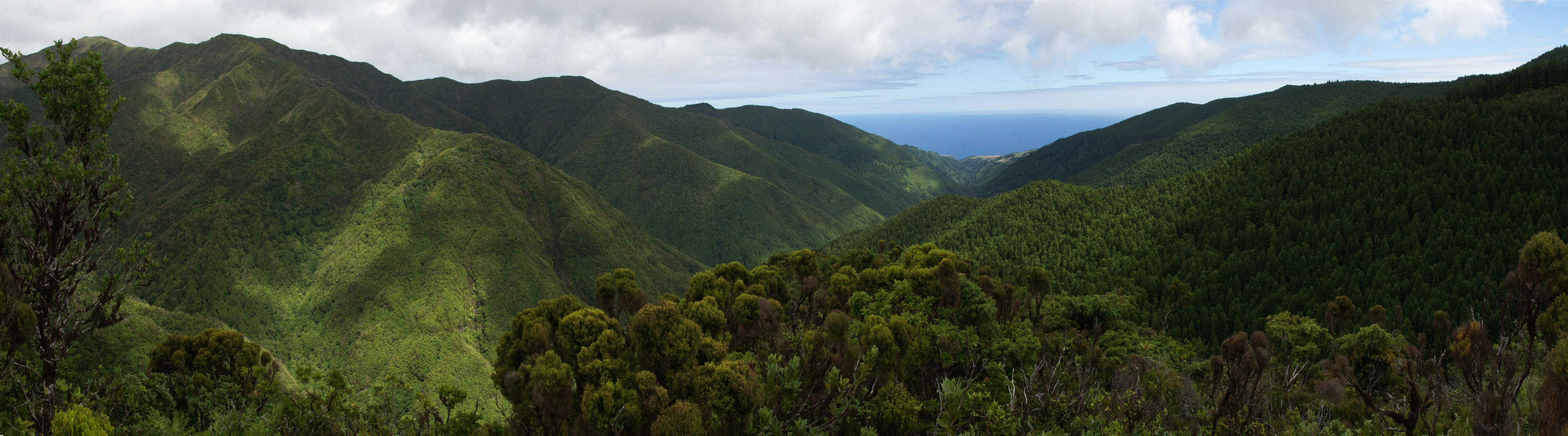 Pico da Vara panorama